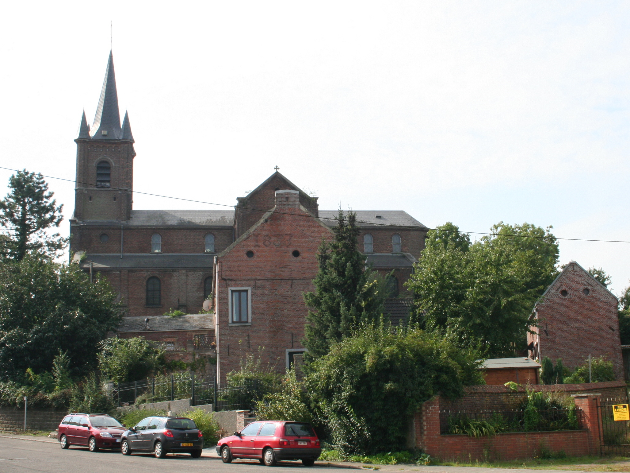 Boussoit (Belgium), the St. Magdalena church.